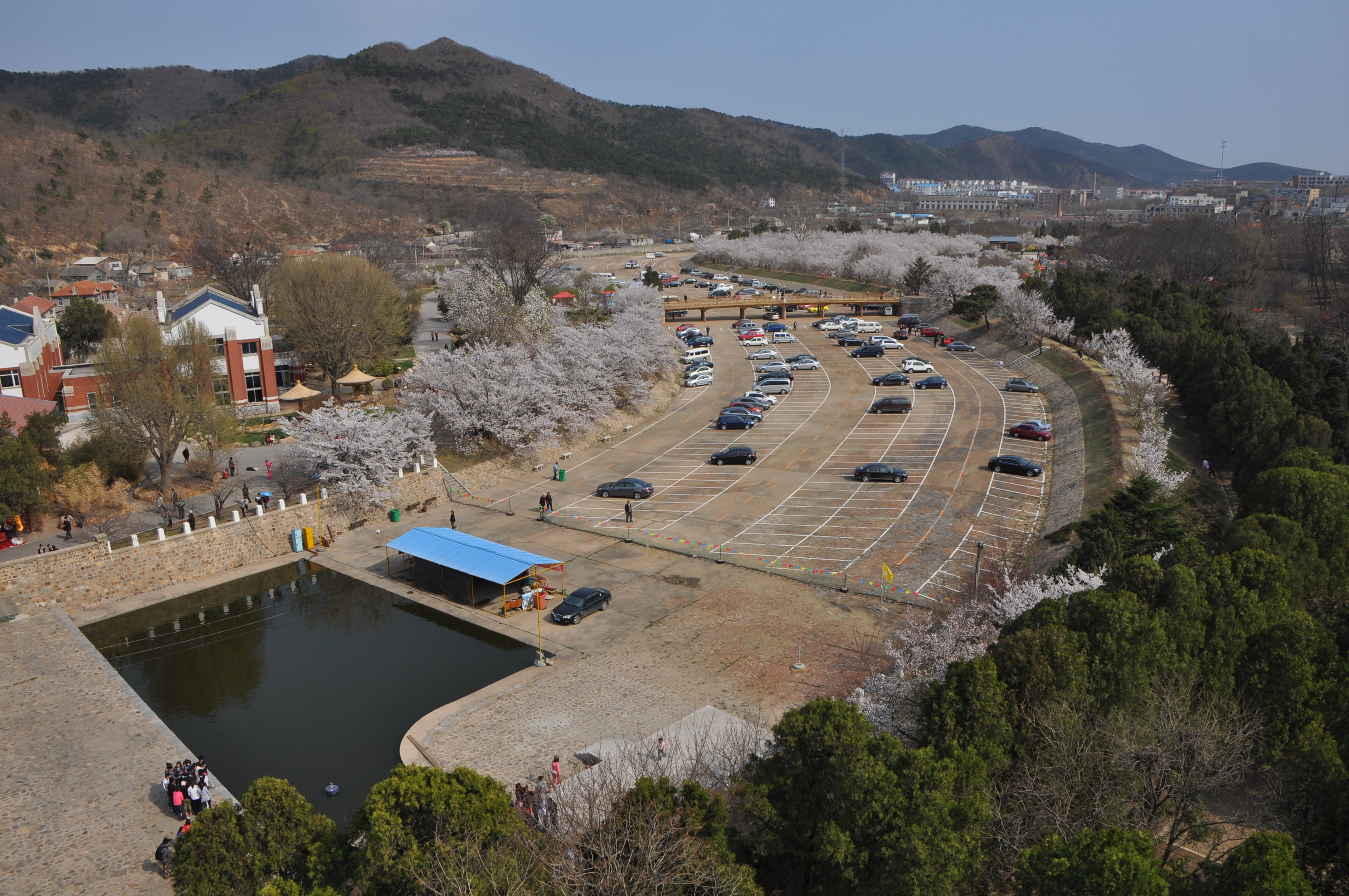 Longwangtang Cherry Blossom Park - The Bird's Eye View from the Dam